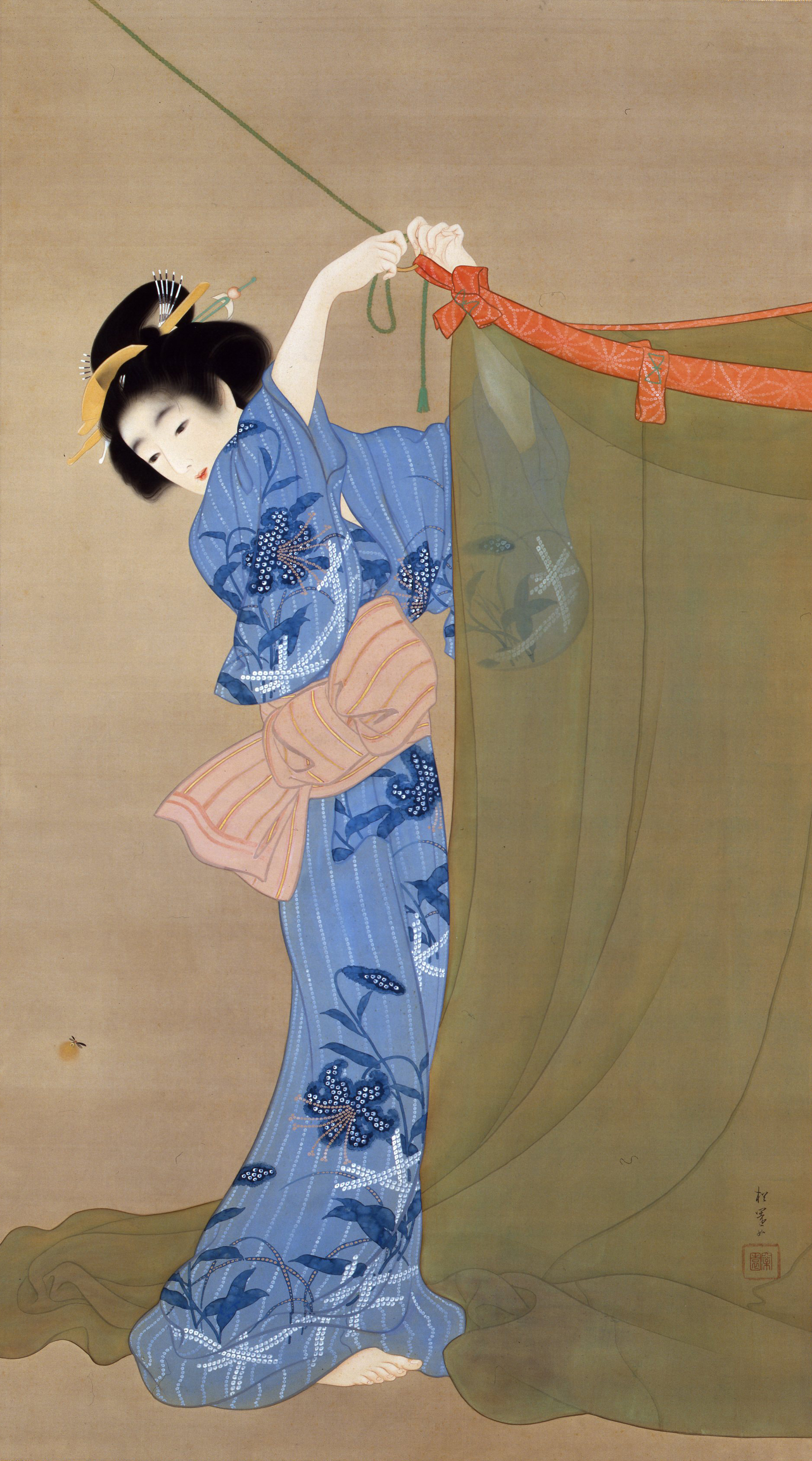 Shoen Uemura's "Firefly" (1913) Yamanate Museum of Art